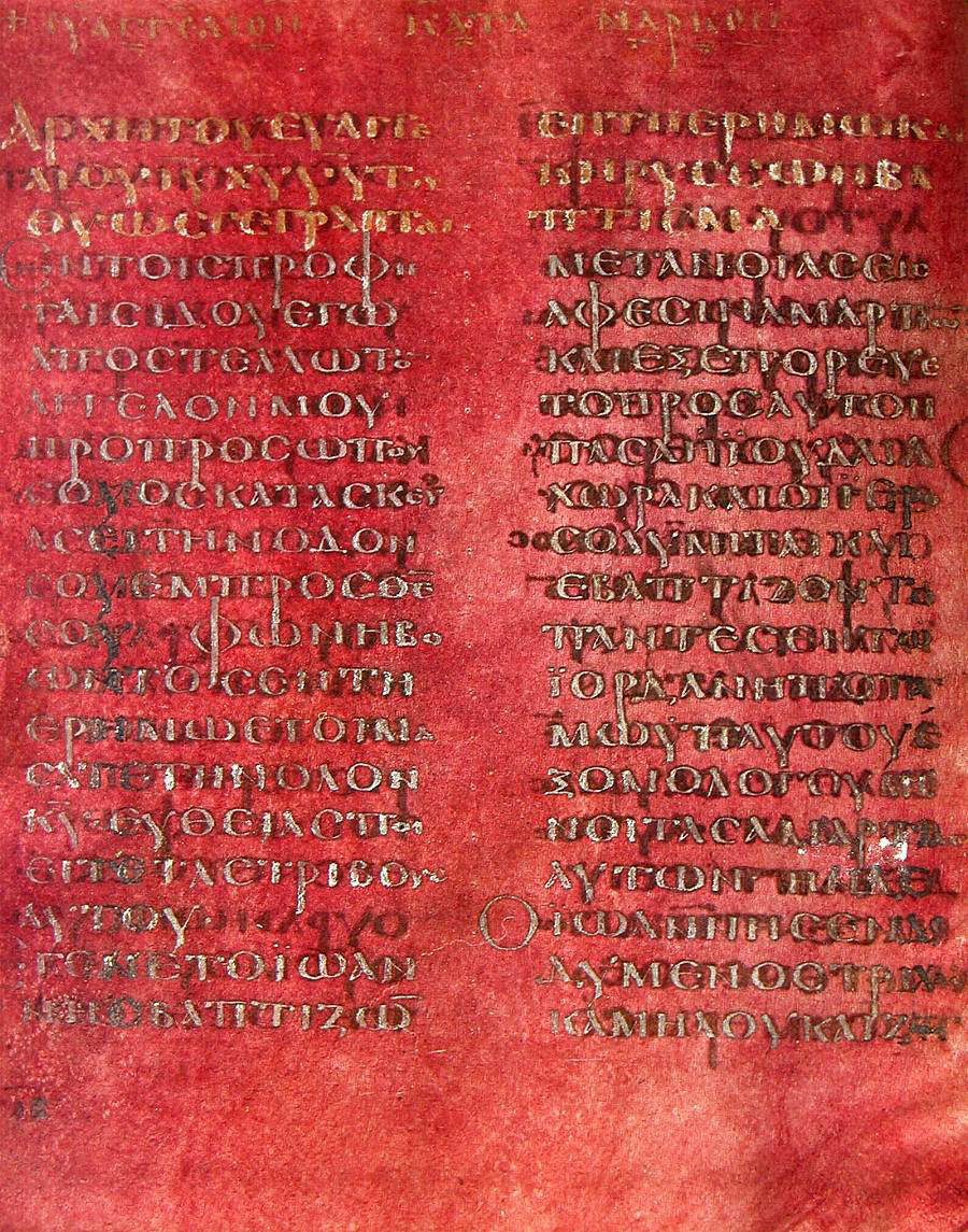 the beginning of the Gospel of Mark